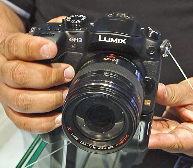 System camera Panasonic Lumix DMC-GH3